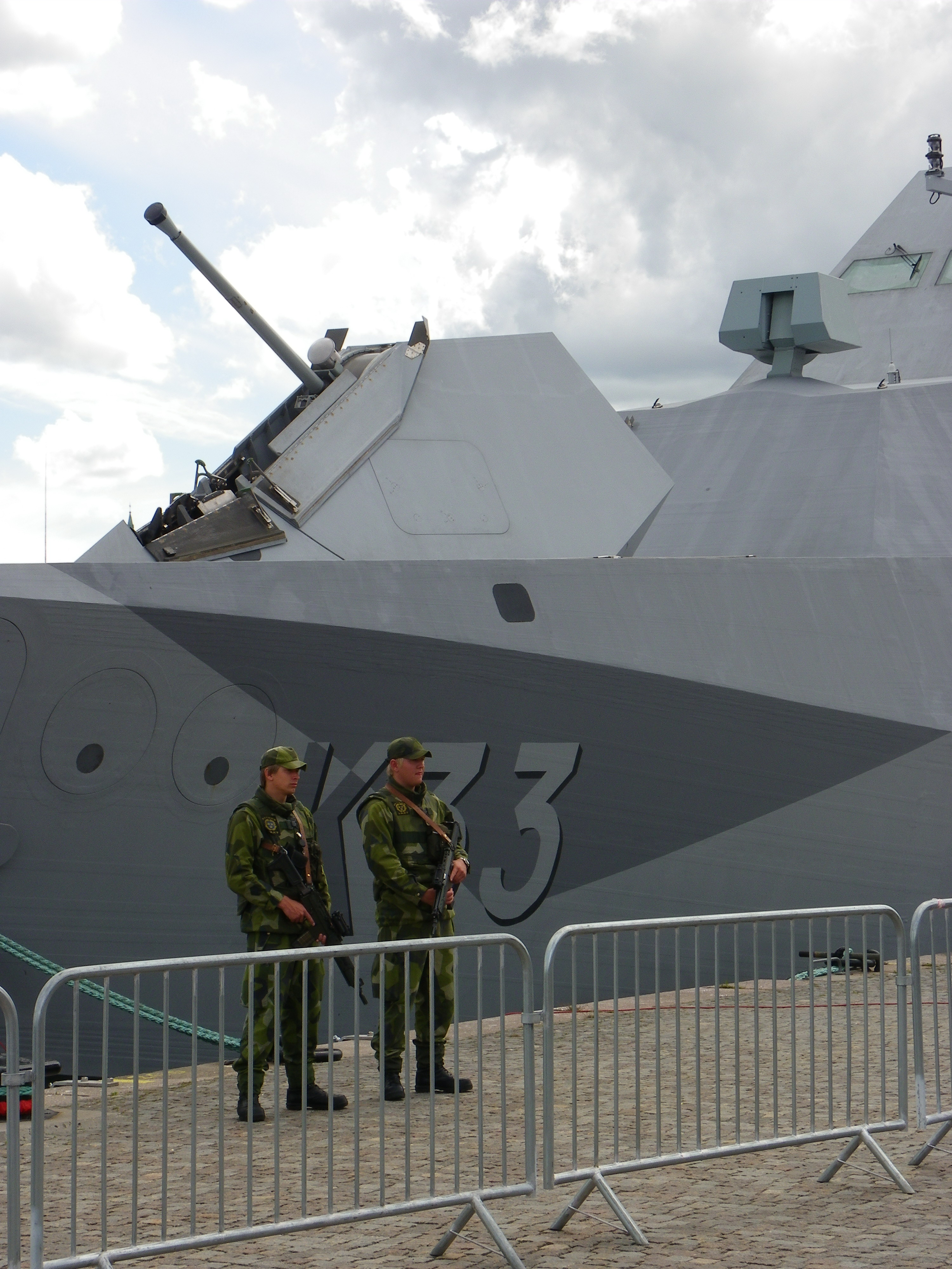 Two soldiers guarding the corvette HMS Härnösand.